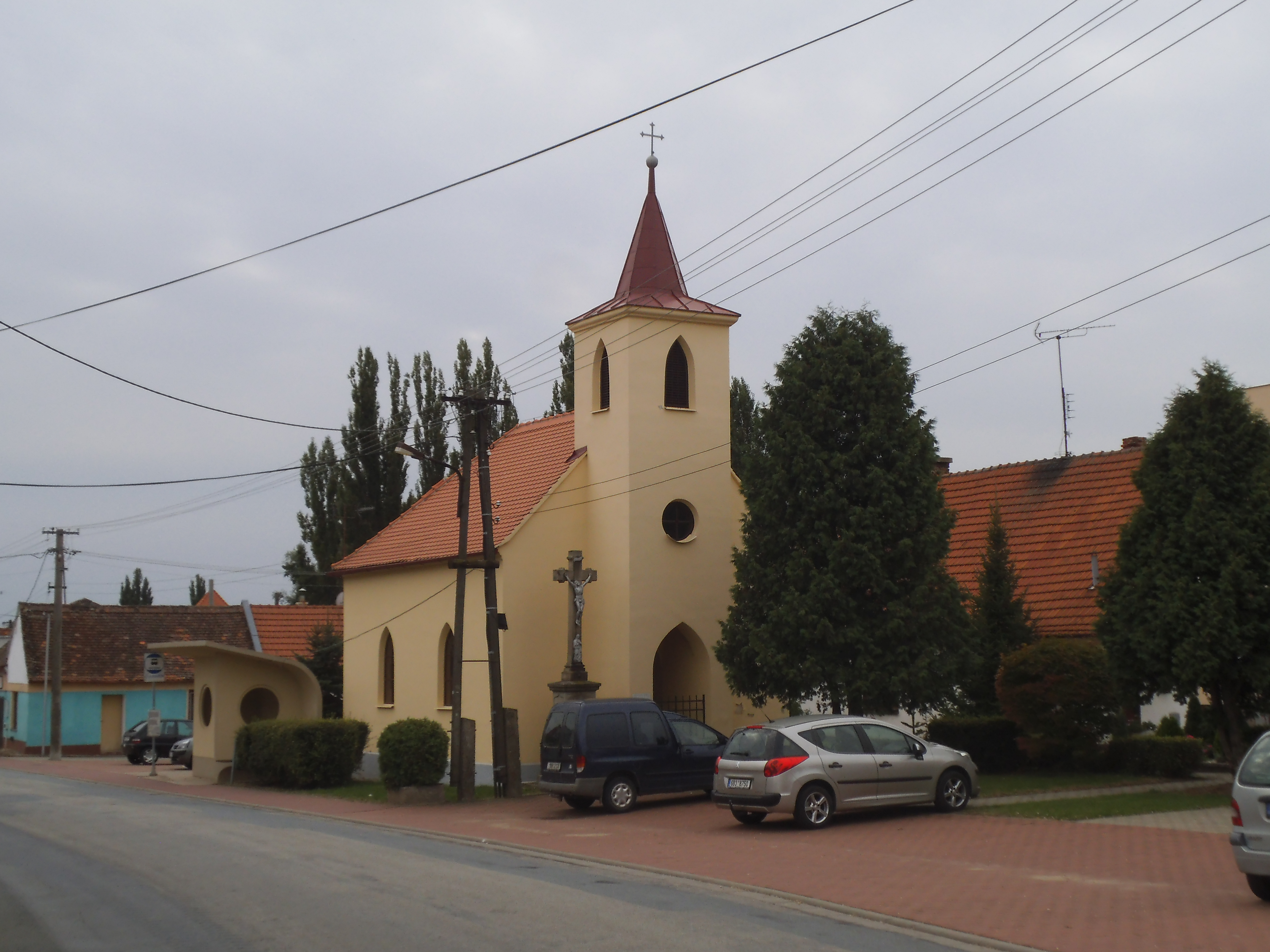 Chapel of Margaret the Virgin in Domčice